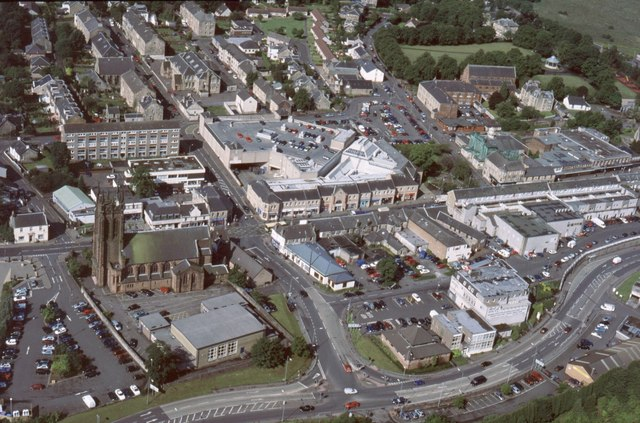 Kirkintilloch town centre Aerial view of Kirkintilloch town centre. The picture was taken from a model aircraft.